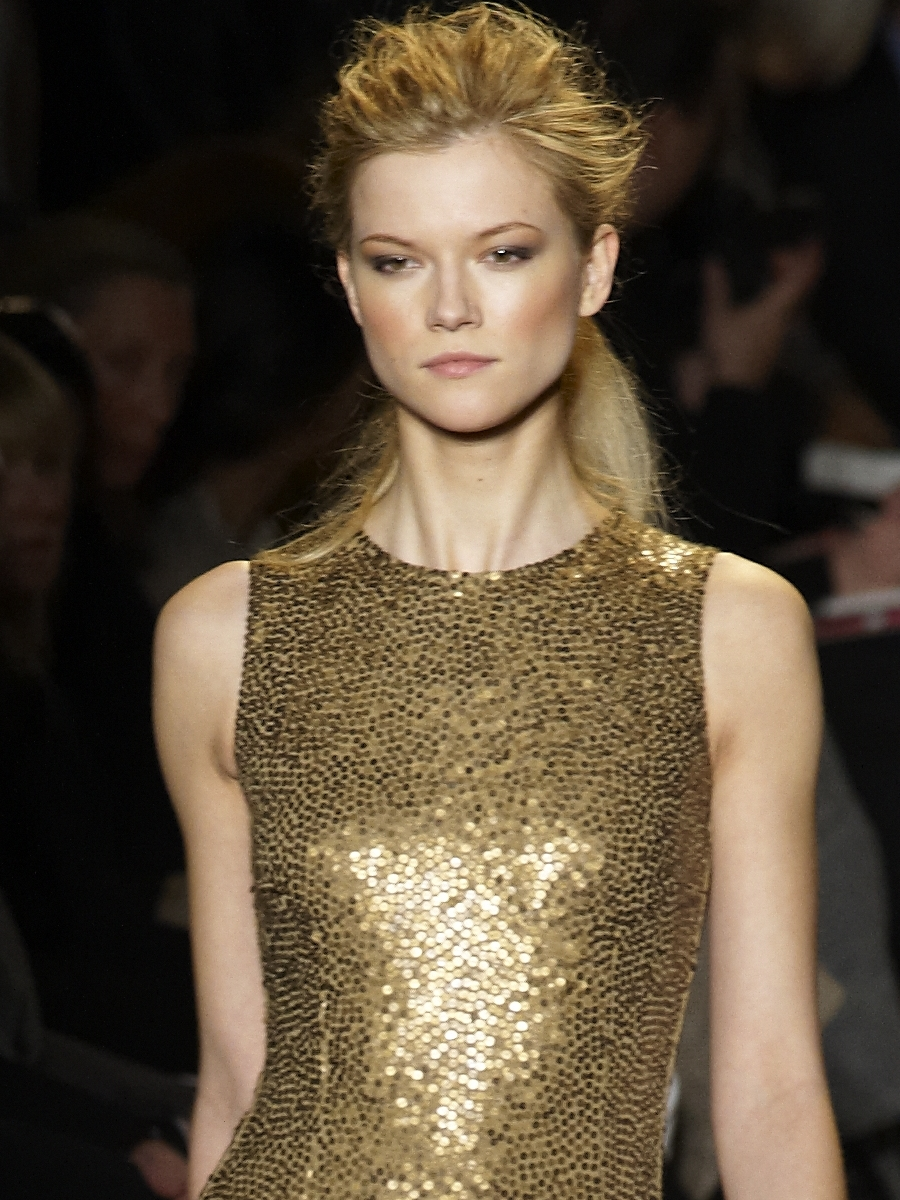 A model walks the runway at the Michael Kors Fall/Winter 2010 show at New York Fashion Week, February 2010.